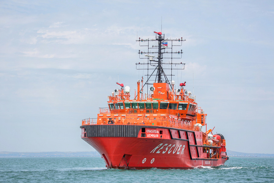 Spasatel Demidov.